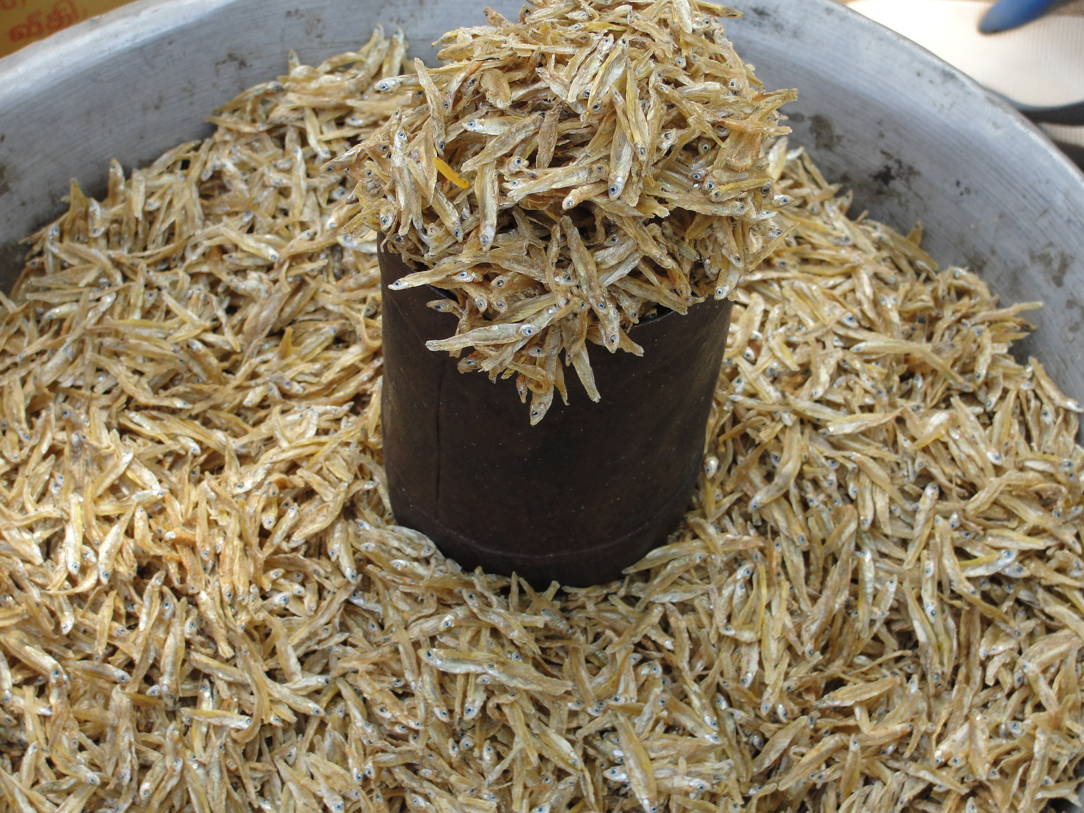 A view of dried fish (Loach) Ayirai.